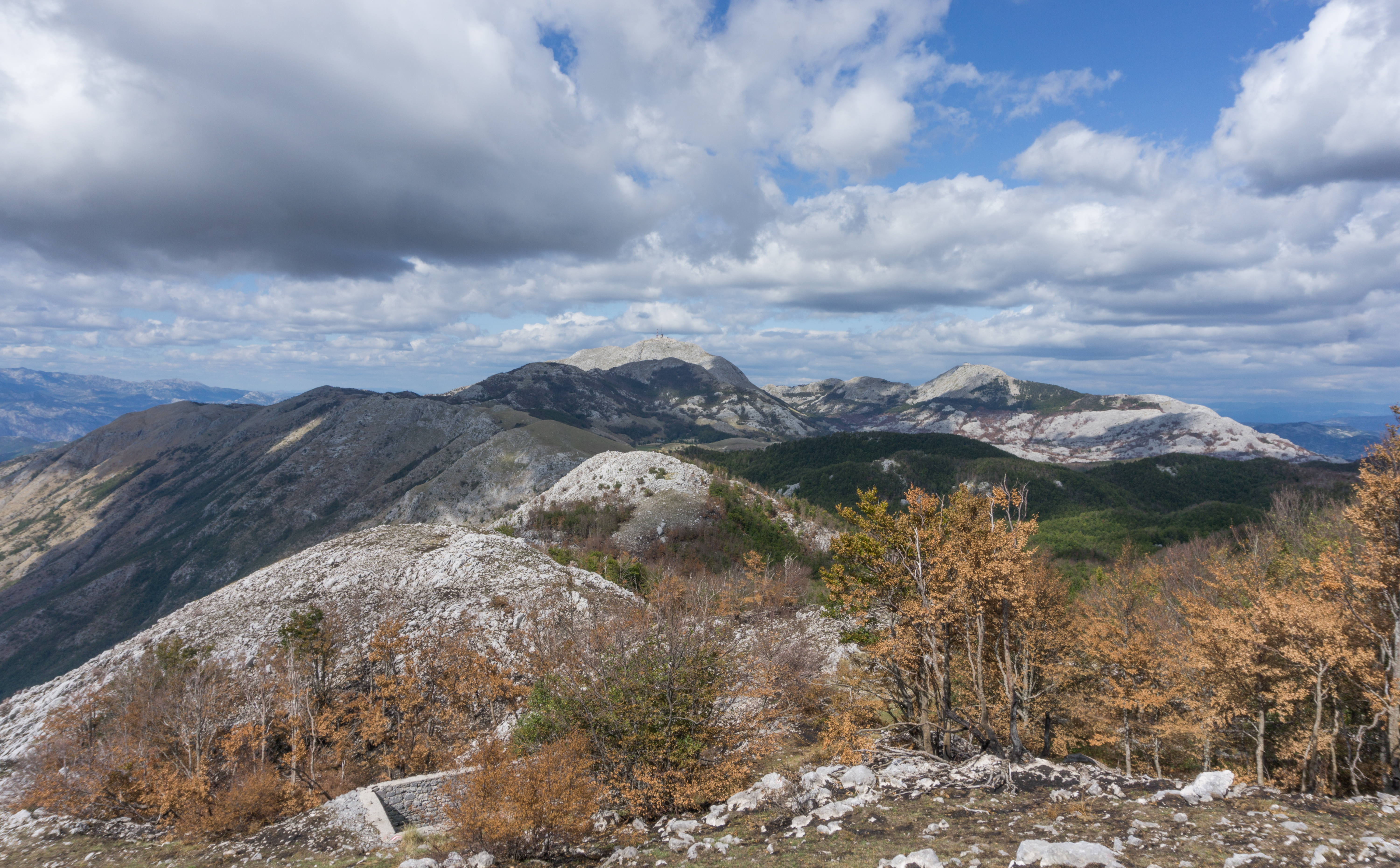 Lovćen nationa park. Picture taken during hiking the Primorska Planinarska Transverzala (PPT; Mountaineering Coastal Transversal) in Montenegro